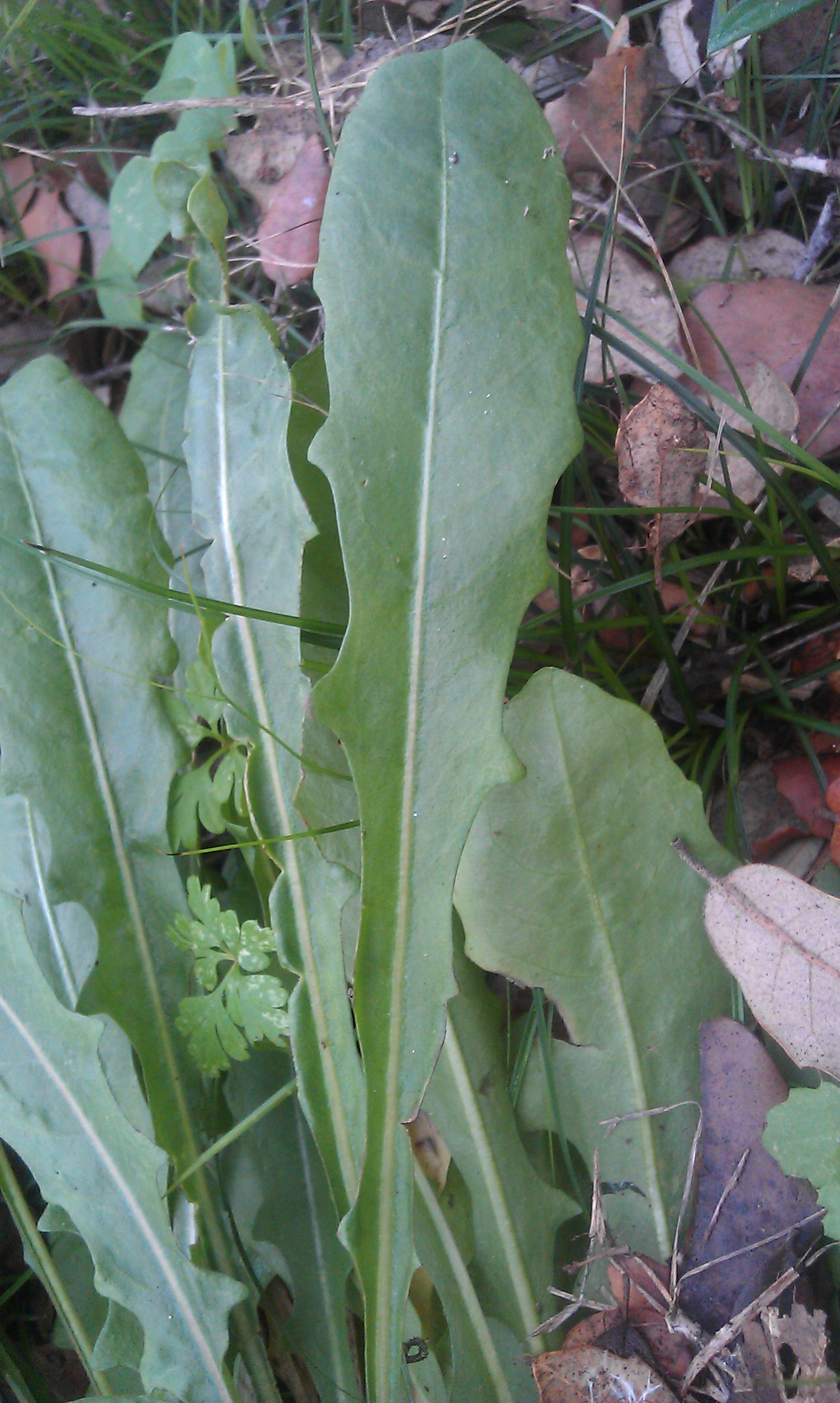 Reichardia picroides from Corsica